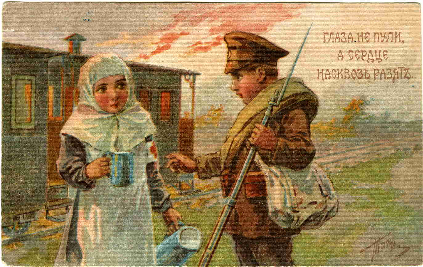 Postcard by Vladimir Taburin